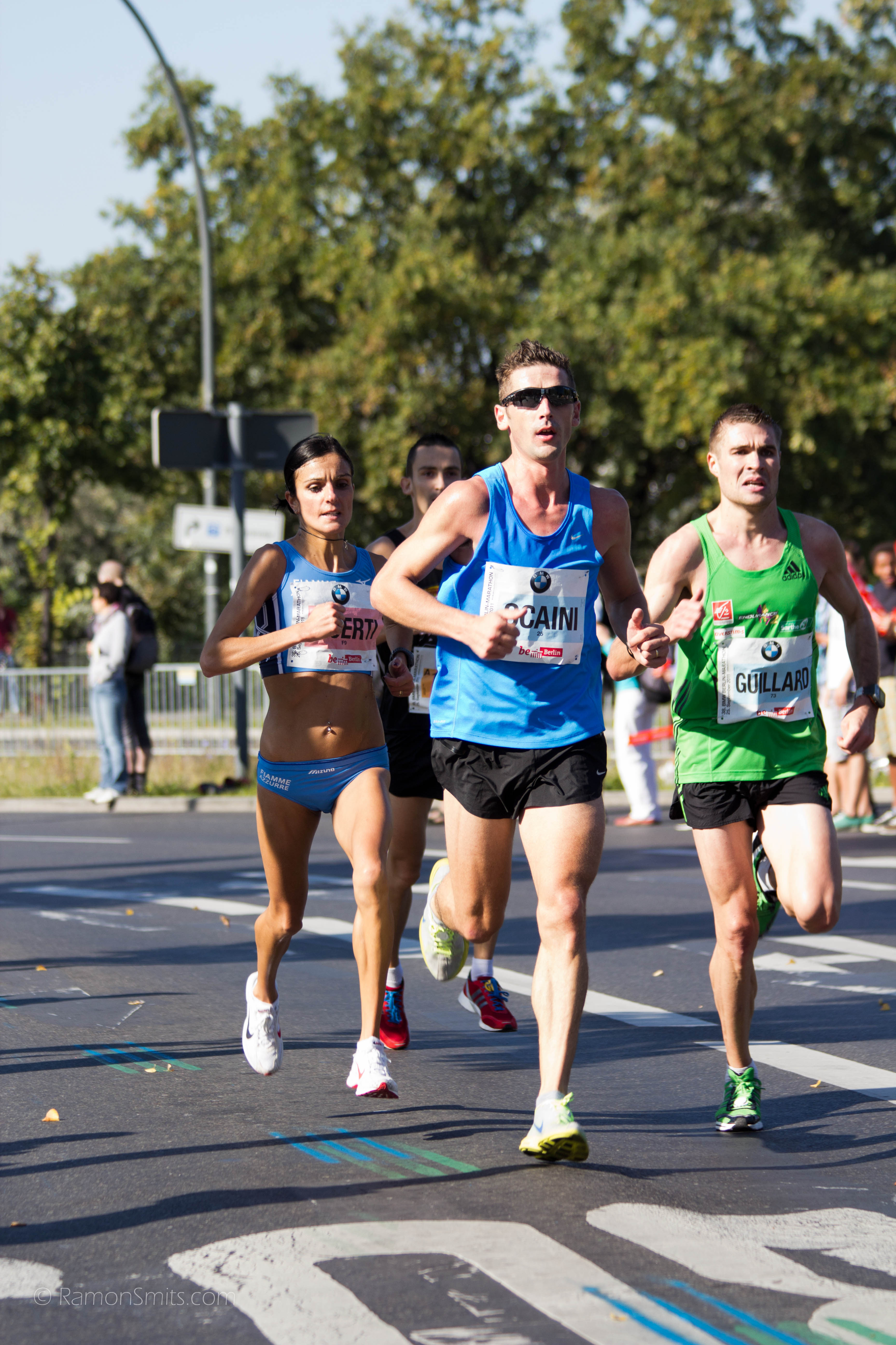 Anna Incerti, Stefano Scaini, Anthony Guillard